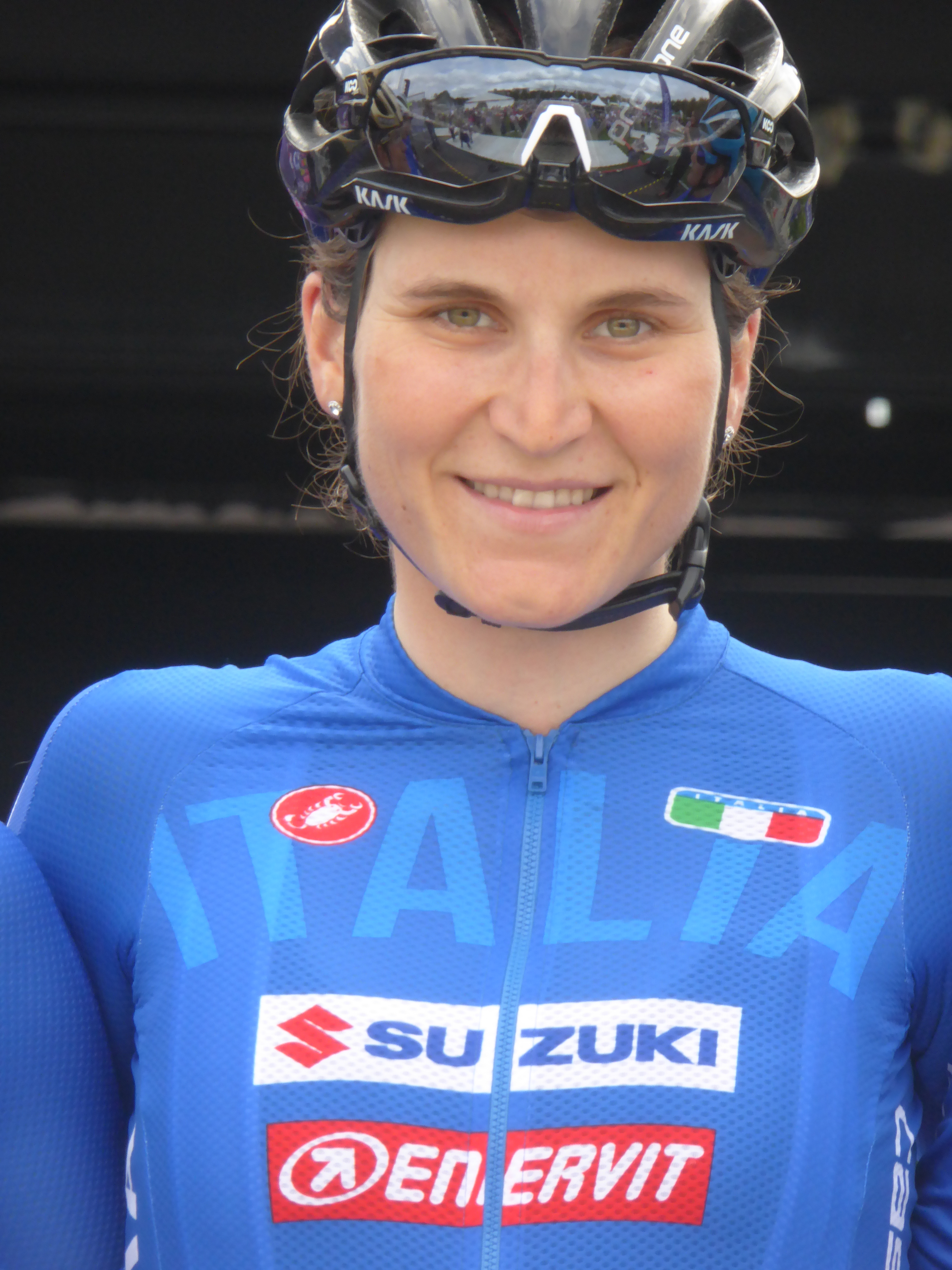 Elisa Longo Borghini (Italy), prior to the women's road race at the 2018 UEC European Road Cycling Championships in Glasgow.